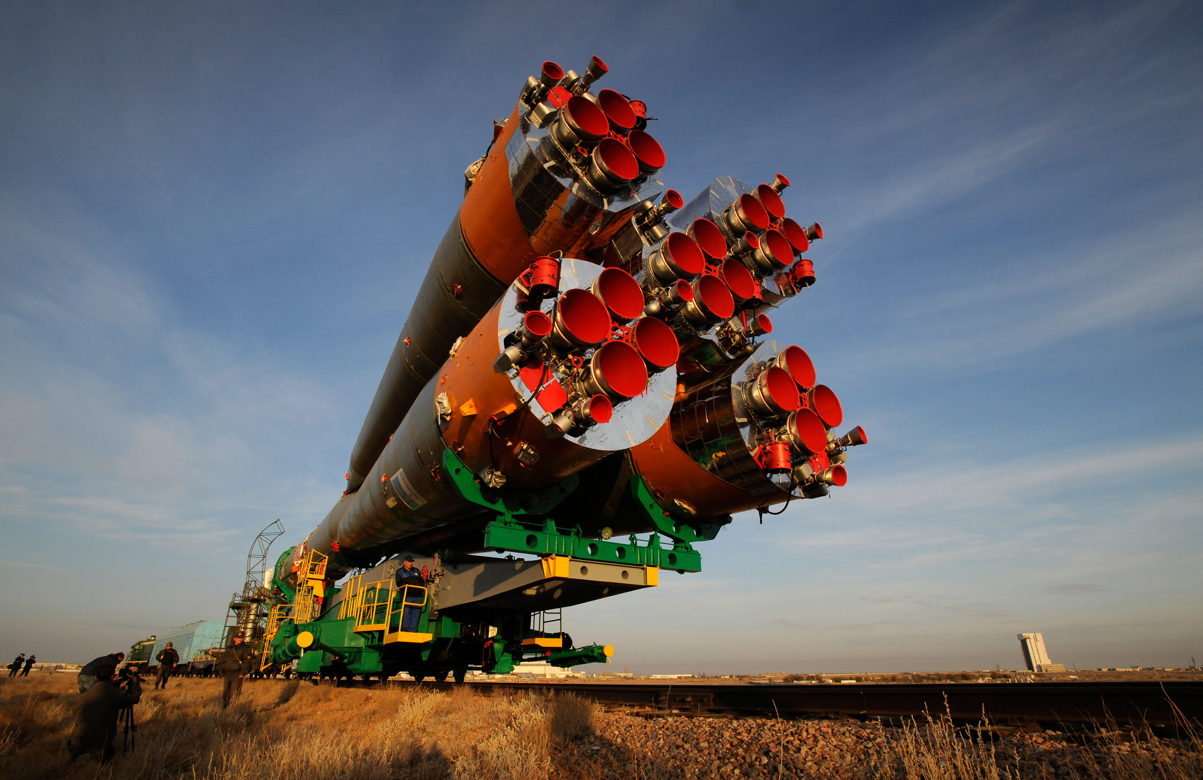 The Soyuz TMA-13 spacecraft is transported by rail car to its launch pad at the Baikonur Cosmodrome in Kazakhstan, Oct. 10, 2008 for launch Oct. 12 to carry NASA astronaut Michael Fincke, Expedition 18 commander; Russian Federal Space Agency cosmonaut Yury Lonchakov, Soyuz commander and Expedition 18 flight engineer; and American spaceflight participant Richard Garriott to the International Space Station. The three crew members will dock their Soyuz to the International Space Station on Oct. 14. Fincke and Lonchakov will spend six months on the station, while Garriott will return to Earth Oct. 24 with two of the Expedition 17 crewmembers currently on the station.